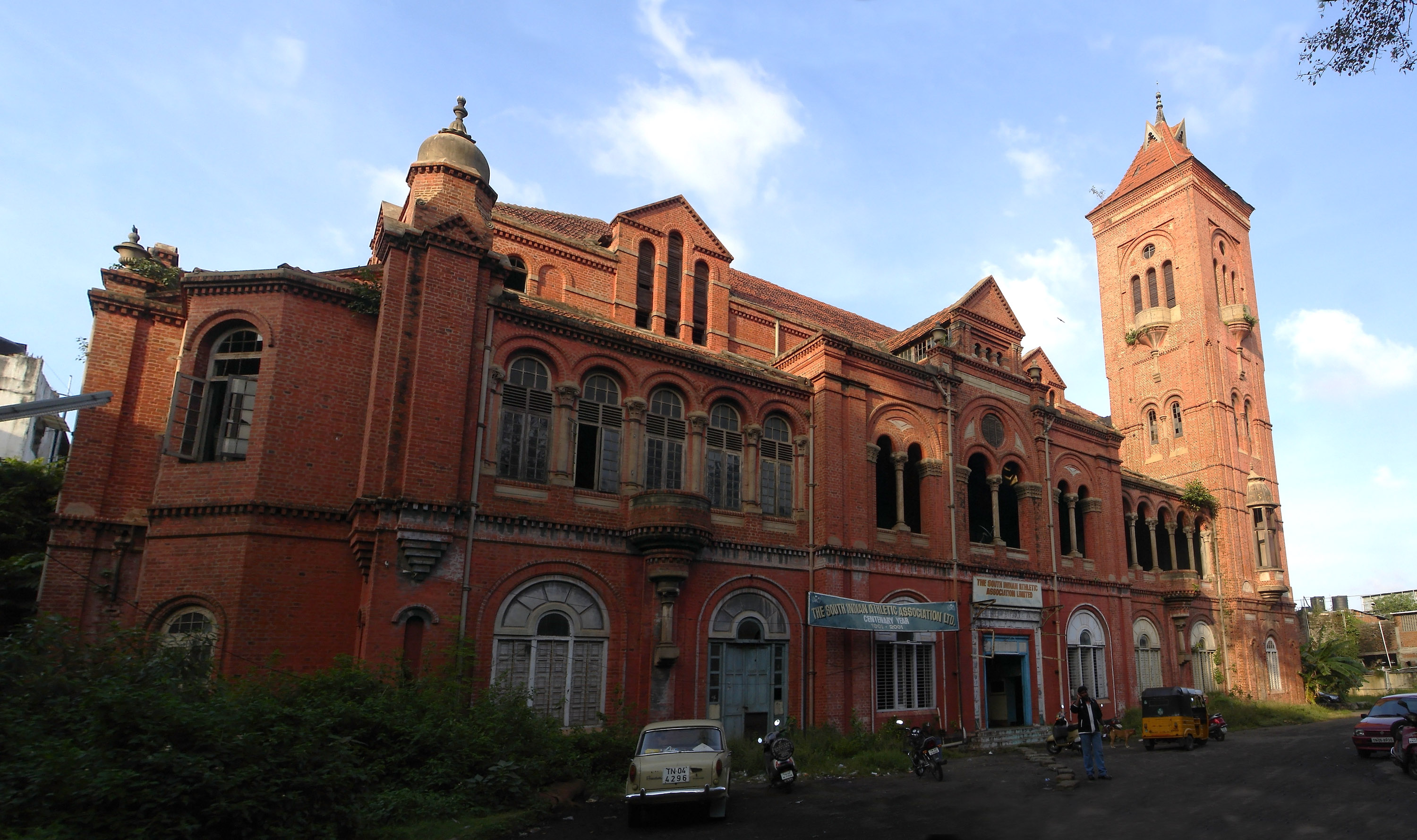 Front view of the Victoria Public Hall, Chennai